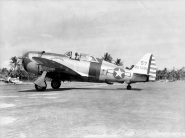 A USAAF Republic P-47D-23-RA Thunderbolt "Miss Lorraine" (s/n 42-27886) from the 341st Fighter Squadron, 348th Fighter Group, 5th Air Force, at Morotai airfield, in January 1945.